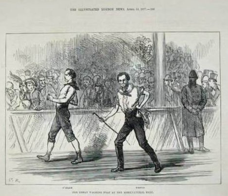 6 days. Londron 1877. Weston vs. O'Leary. Edward Payson Weston (right) and Daniel O'Leary in their fight in 1877 at the Agricultural Hall (now the Business Design Centre) in Islington, London